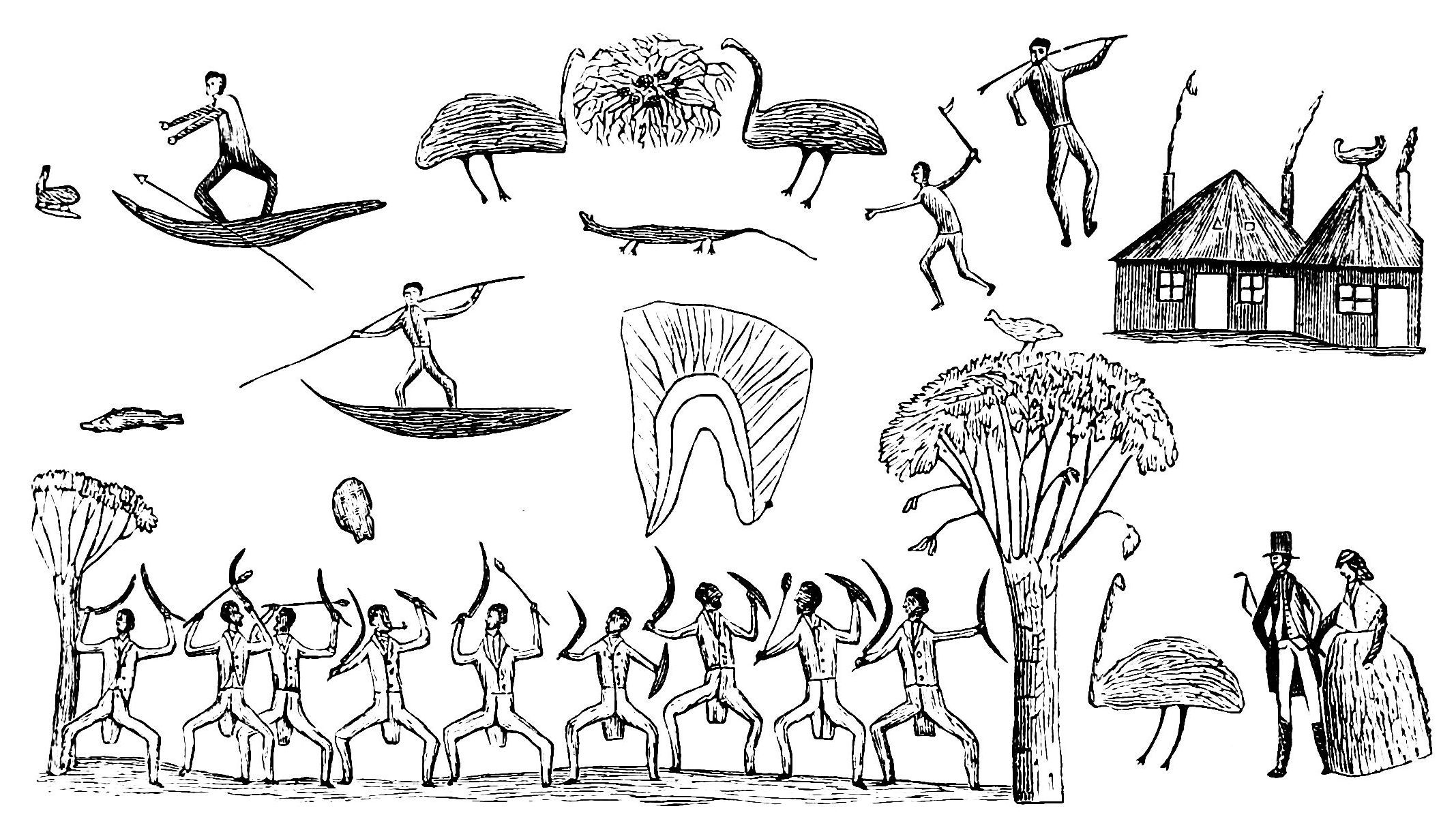 Native art including the white settlers